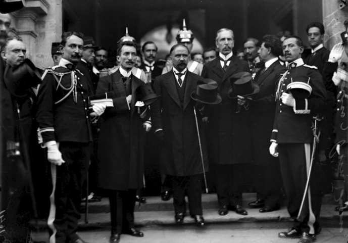 Justo Sierra was a prominent liberal intellectual who served as Minister of Education between 1902 and 1911. He was responsible for founding the National University of Mexico. Under President Madero, he served as Ambassador of Mexico to Spain and died in Madrid in 1912 while discharging his duties. His body was returned to Mexico and his funeral at the French Pantheon (Panteón Francés) was presided by President Madero and Vice-President Pino Suárez.